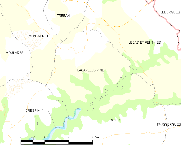 Map of French municipality Lacapelle-Pinet